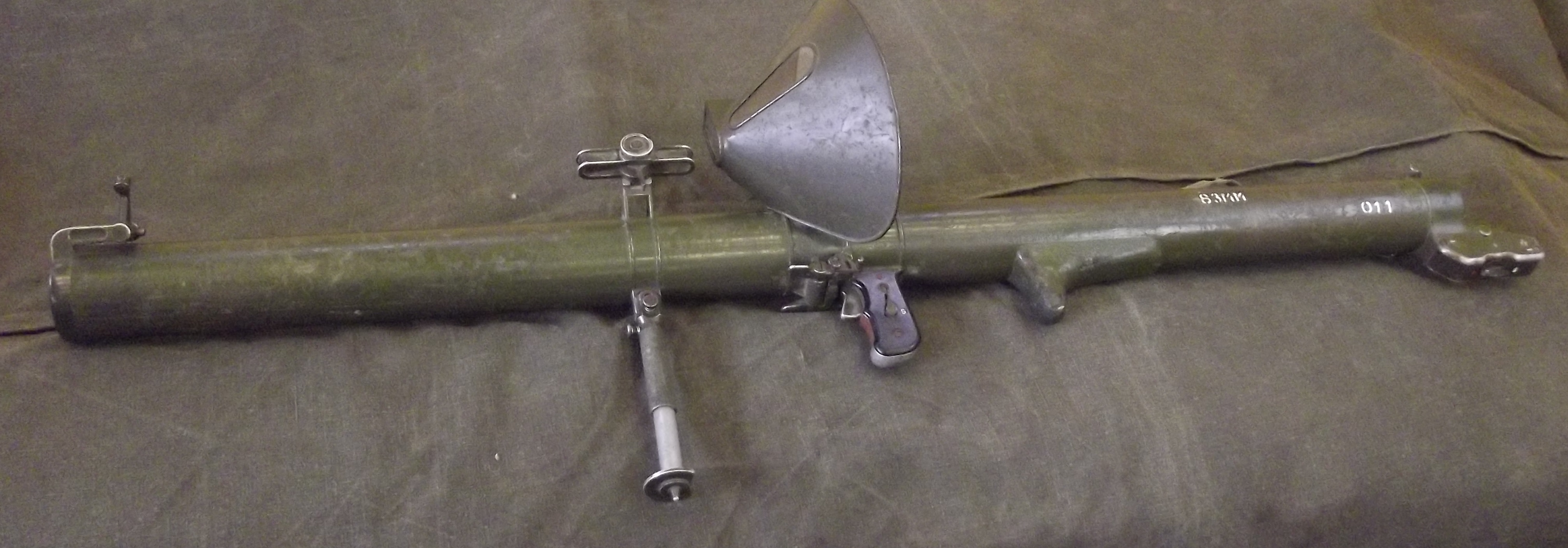 Mecar Blindicide RL-83 with Belgian faceshield and monopod extended